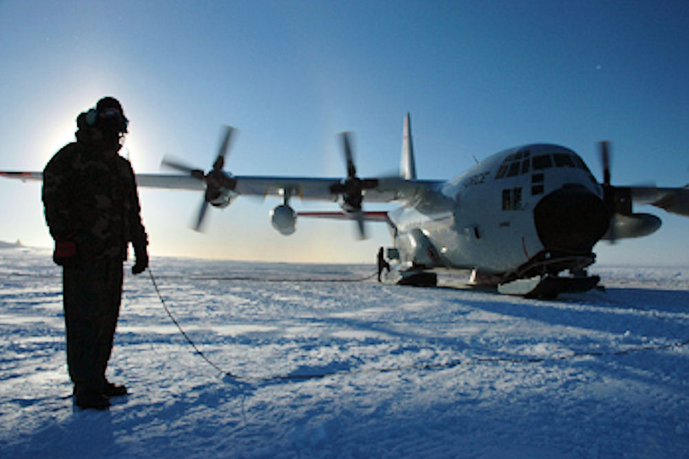 139th Airlift Squadron - Lockheed LC-130H Hercules in Antarctica